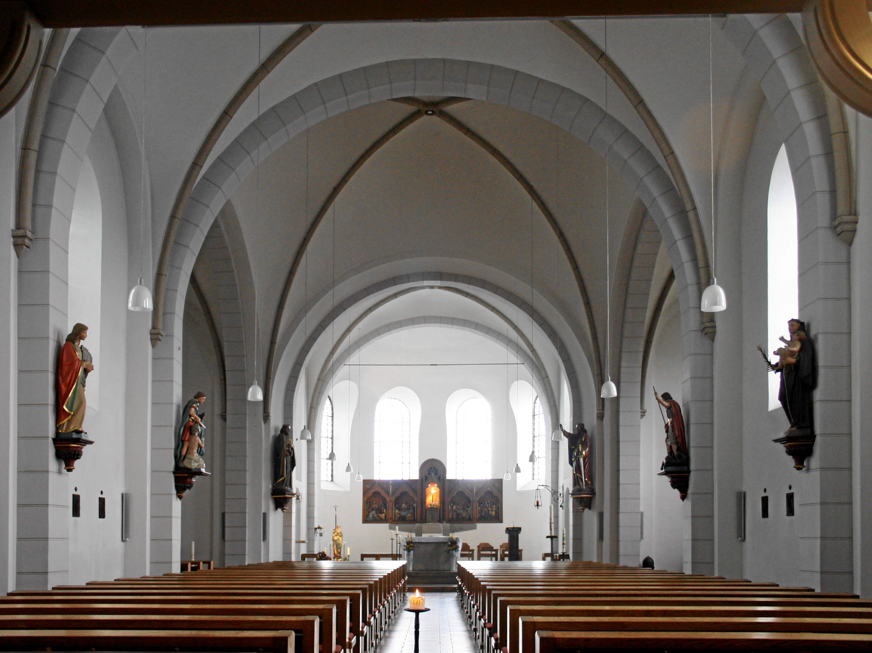 St. Augustin-Niederpleis, Germany. Roman-catholic church Saint Martinus, interior view towards East.